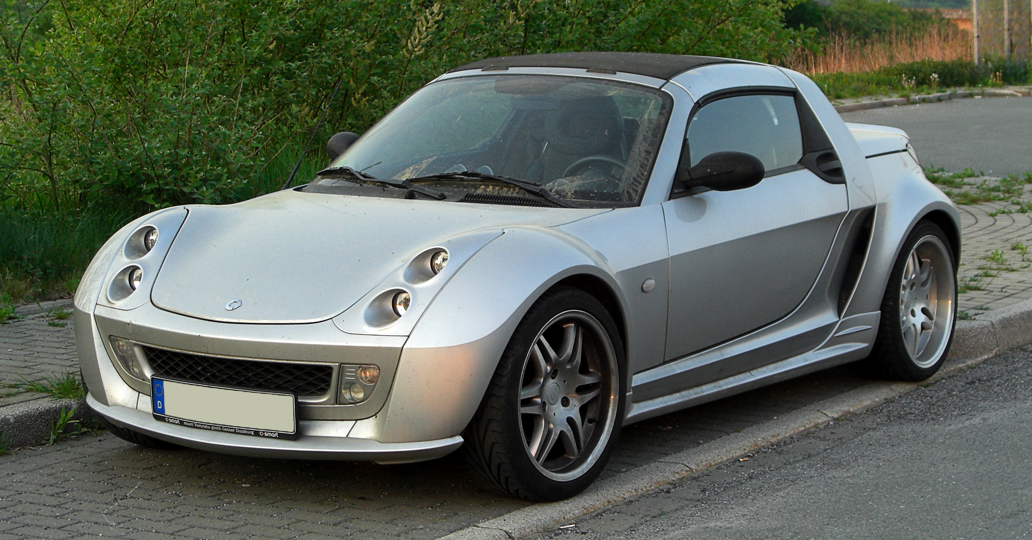 Smart Roadster Brabus